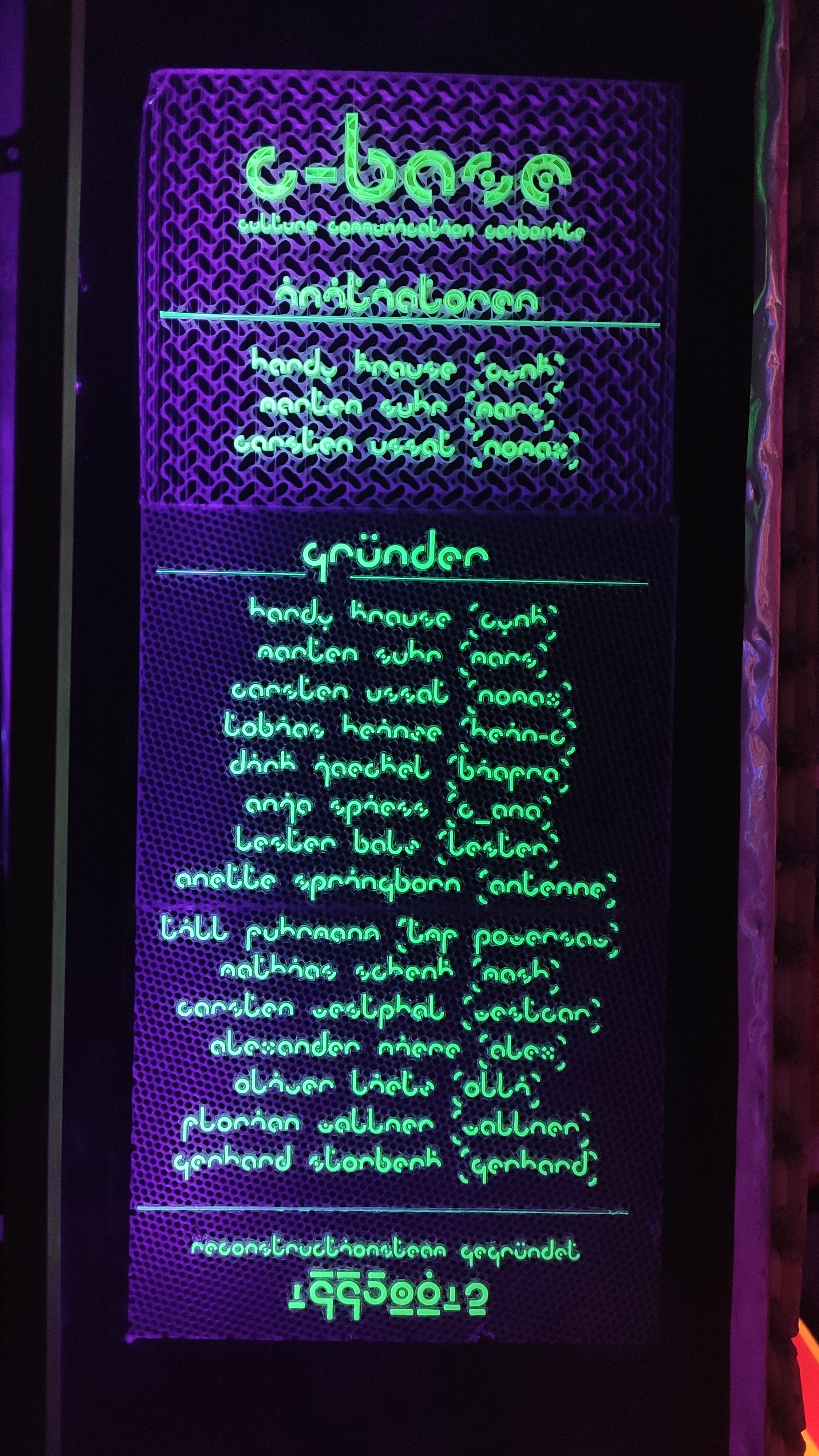 Founders of the c-base